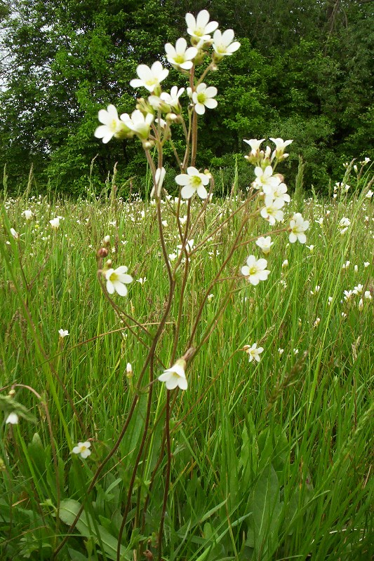 Saxifraga granulata growing on meadow near Żyrardów, Eastern Masovia, Poland.